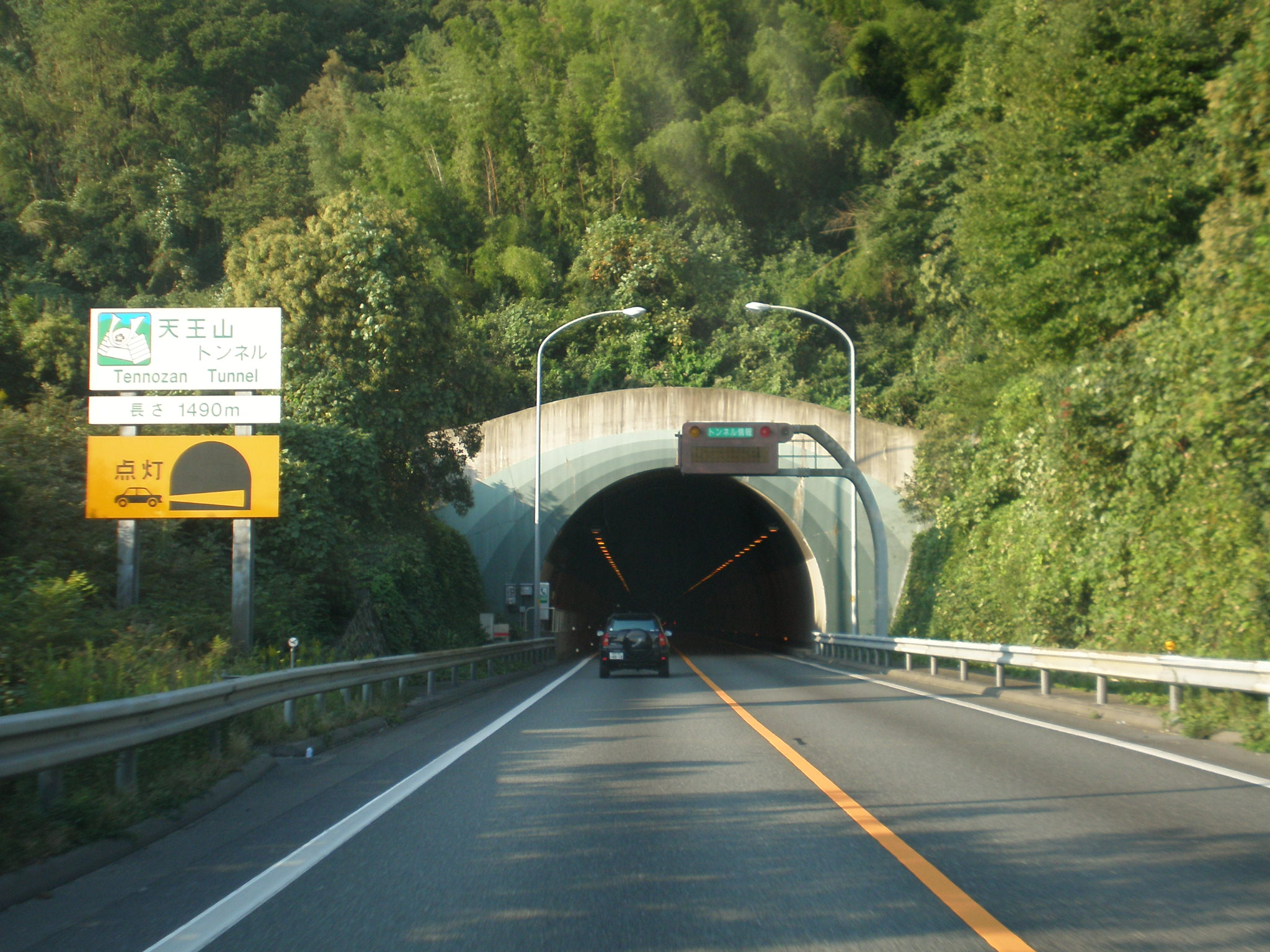 Tennozan Tunnel portal